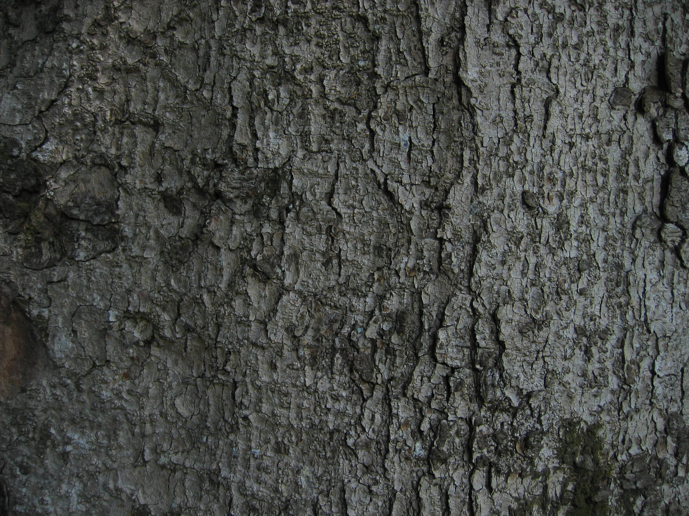 nothing